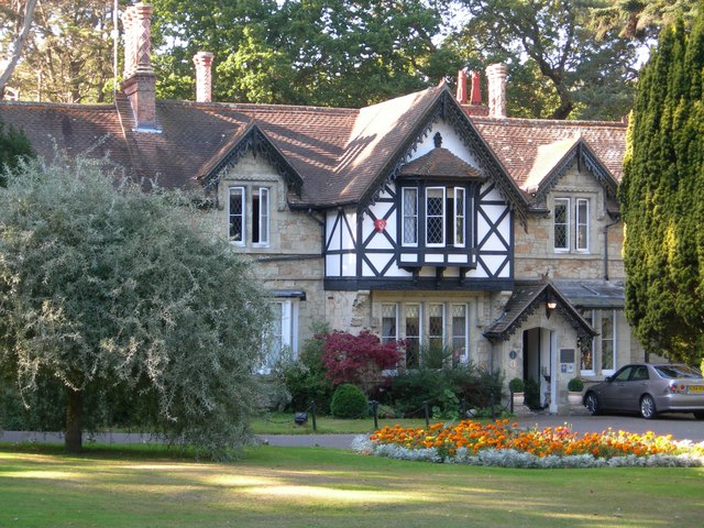 Rylstone Manor Hotel Hotel situated in Rylstone Park